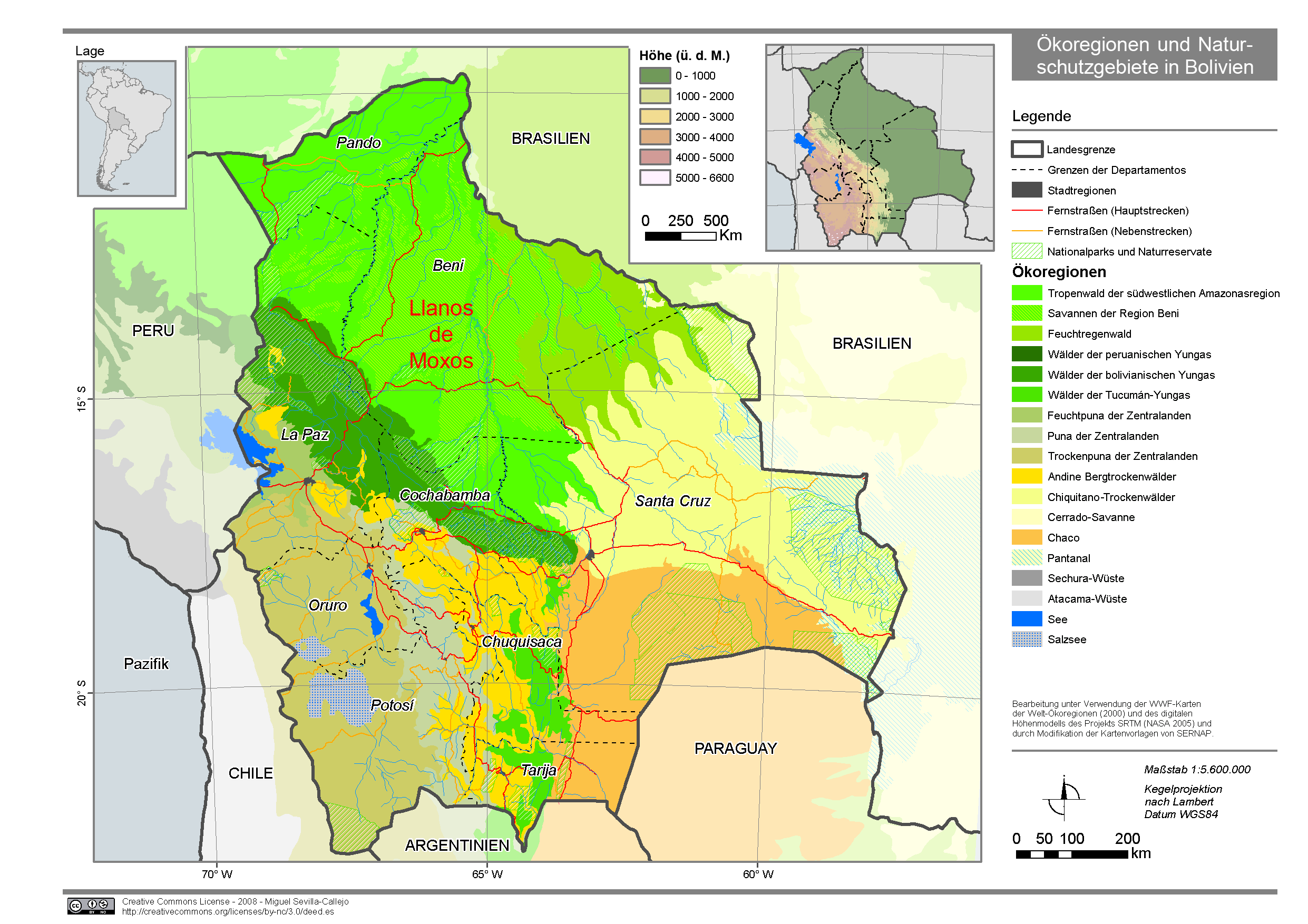 Llanos de Moxos